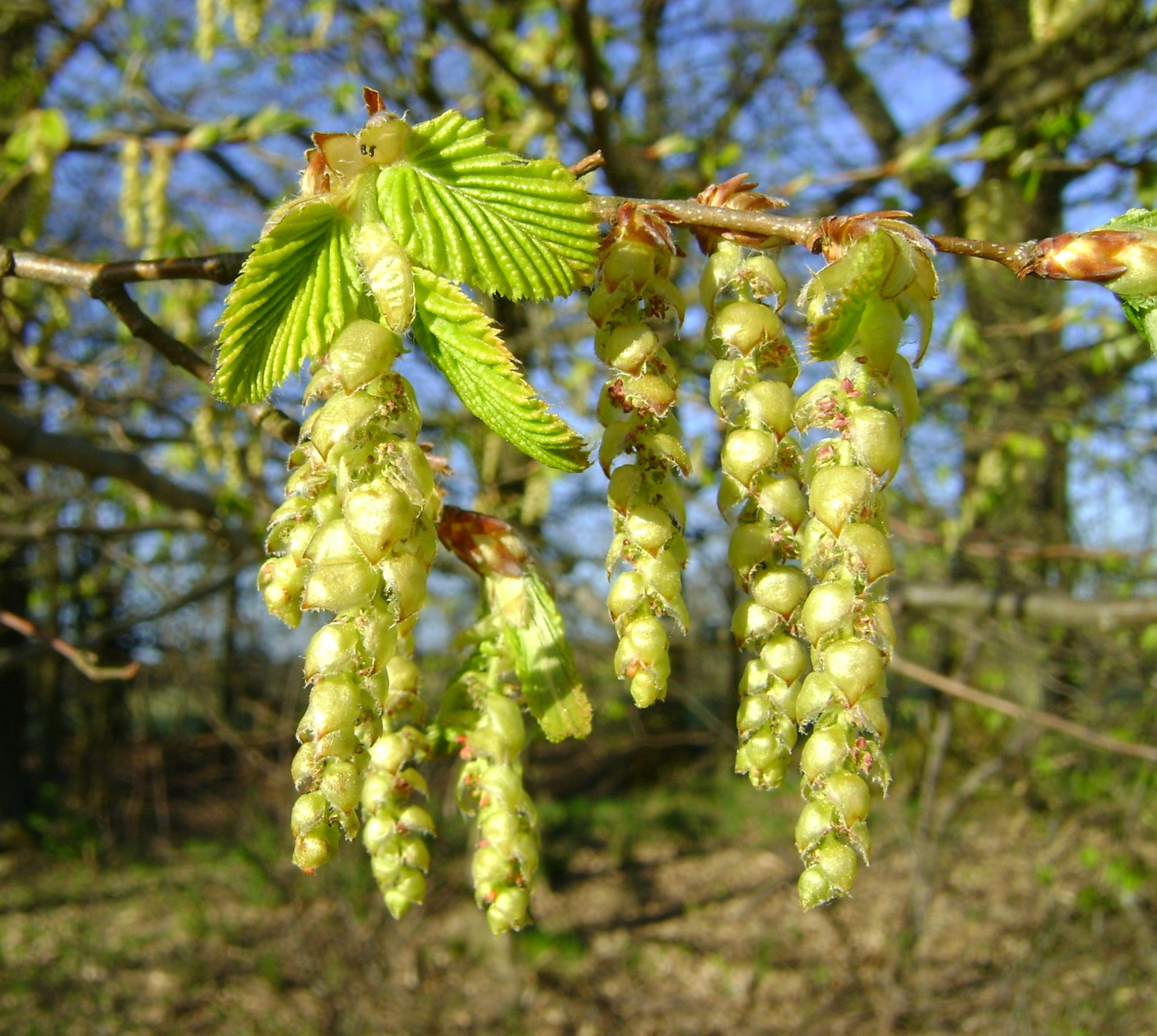 Flowers of Carpinus betulus